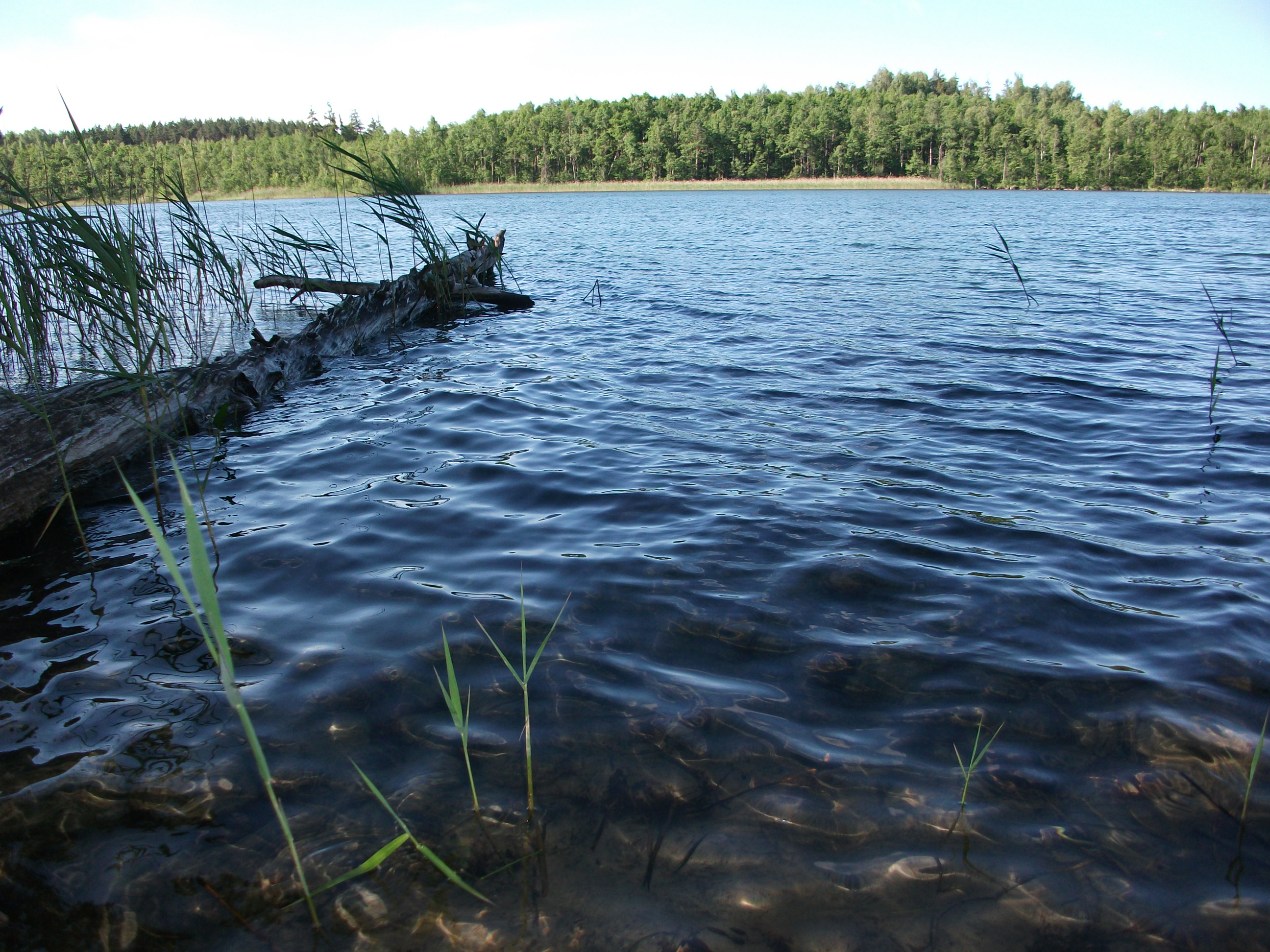 Bobryca lake, Lepiel distirct, Belarus